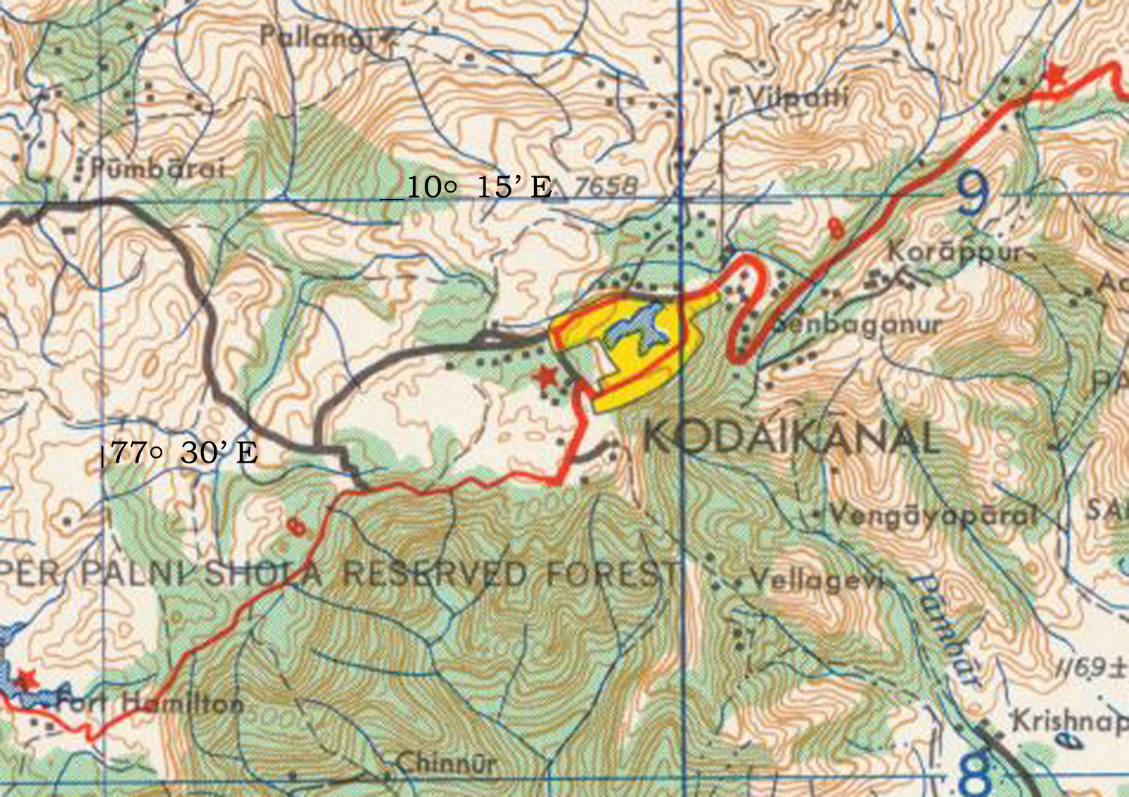 Kodaikanal topo map